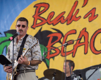 All Astronaut Band "Max Q". Dan Burbank on guitar, Jim Wetherbee on drums.